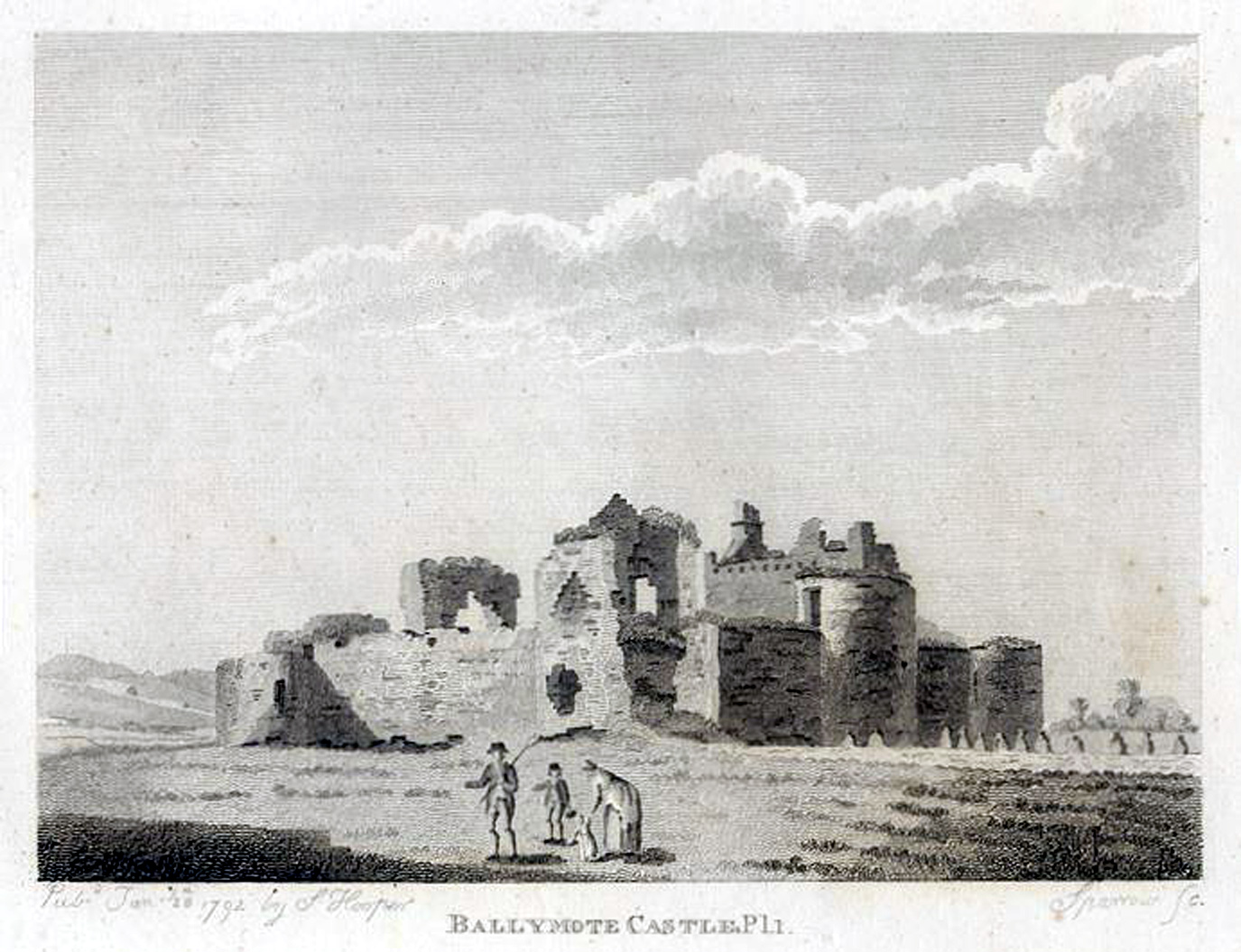 Ballymote Castle 1_1792